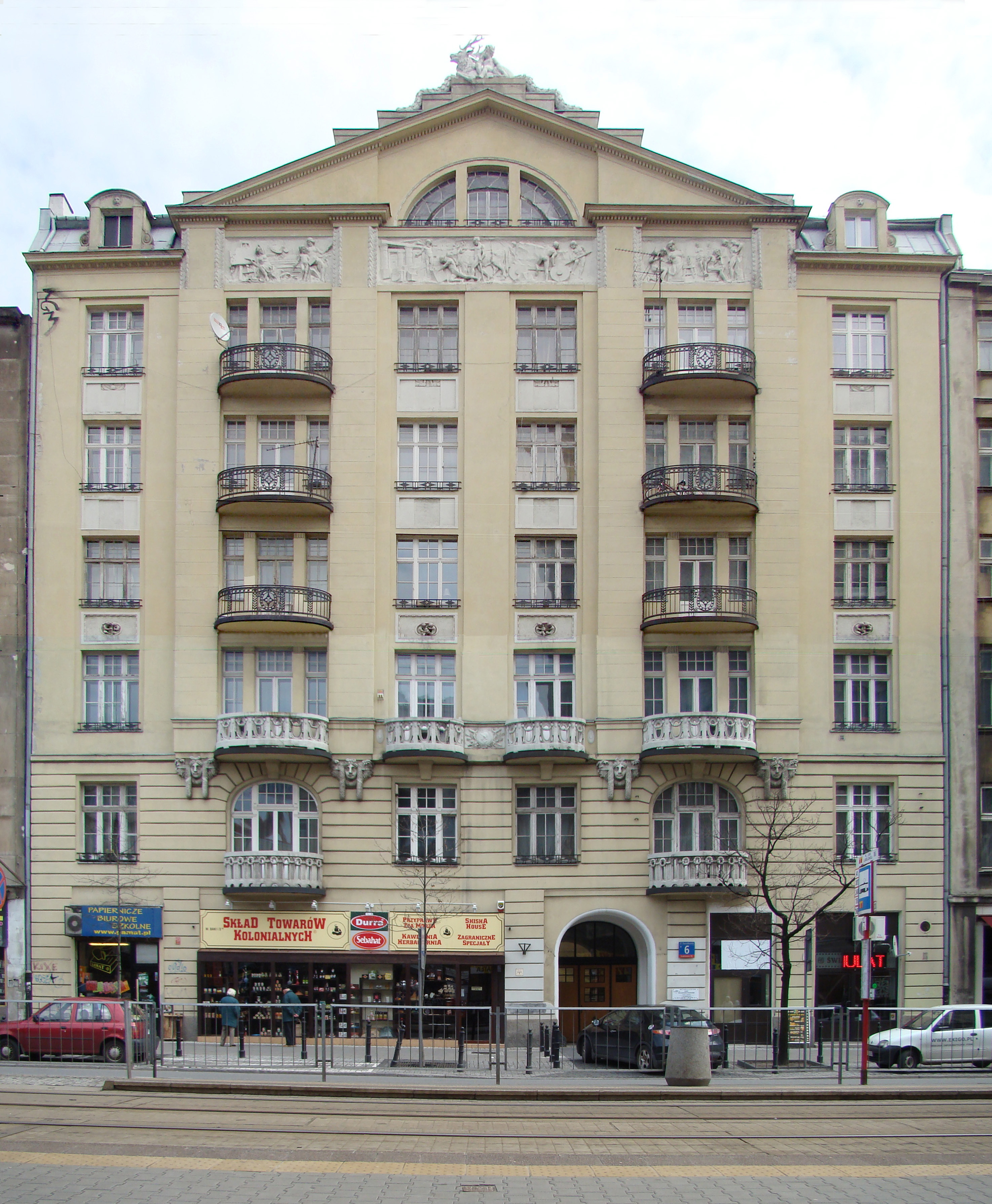 Apartment house, 6, Marszałkowska St., Warsaw, architect Ludwik Panczakiewicz